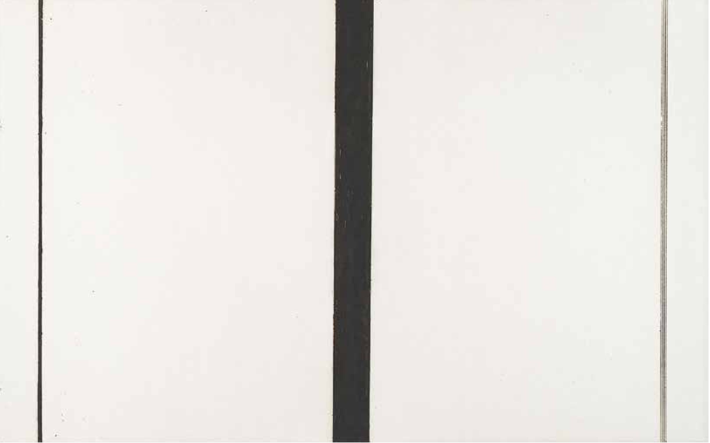 Untitled Etching 1 (First Version) by Barnett Newman, 1968, etching, private collection